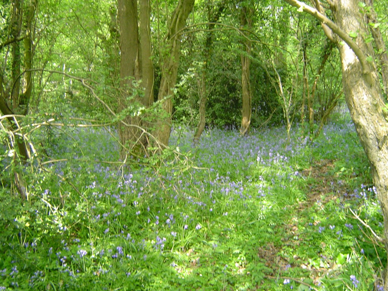 Martin Croft Brake